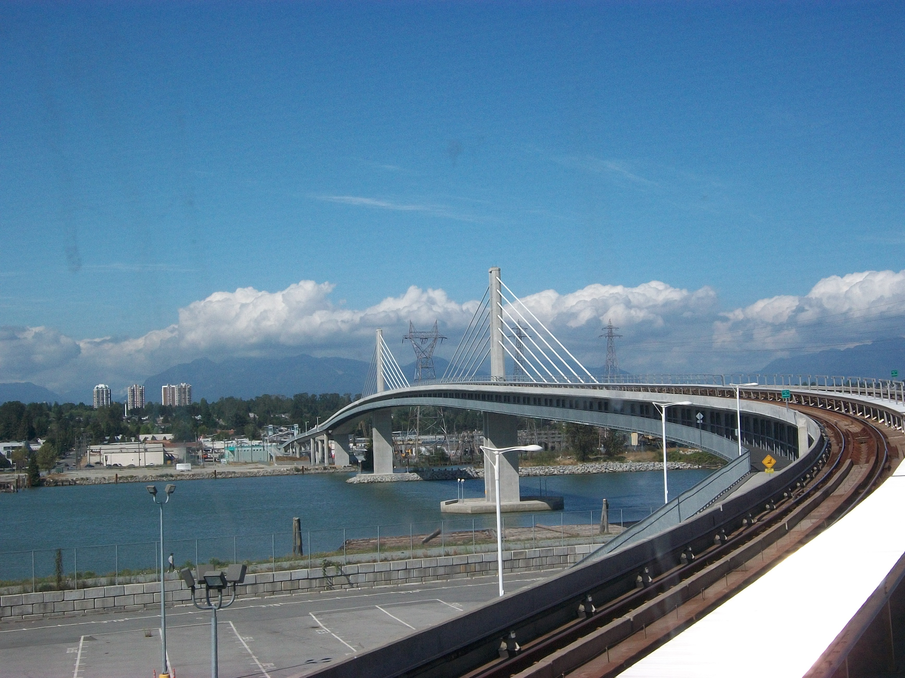 North Arm Bridge as seen from the front of a SkyTrain in Richmond about to traverse the bridge.